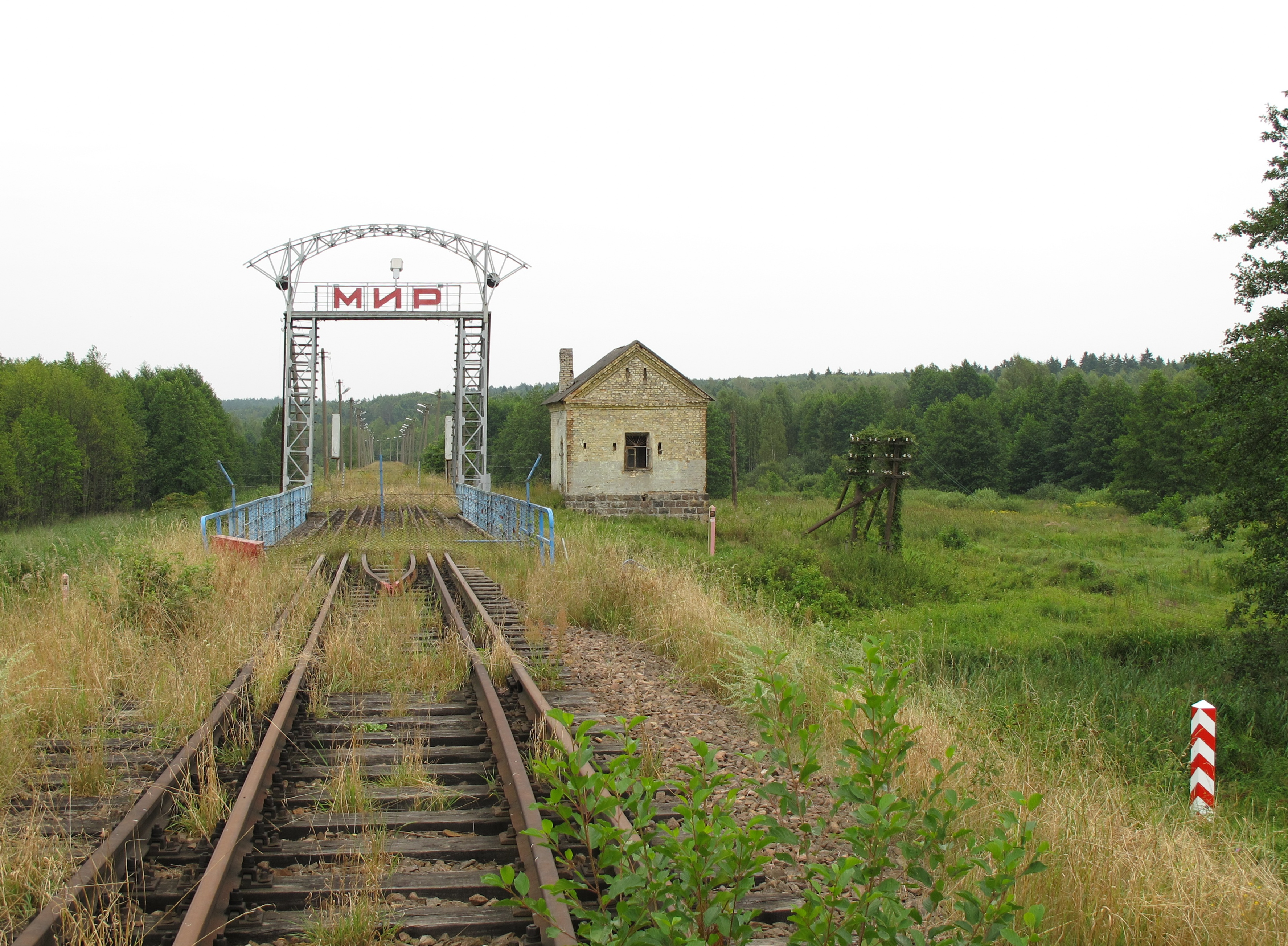 Welcoming gate on belarussian side of the PL-BY border on railroad line 37/58 — МИР